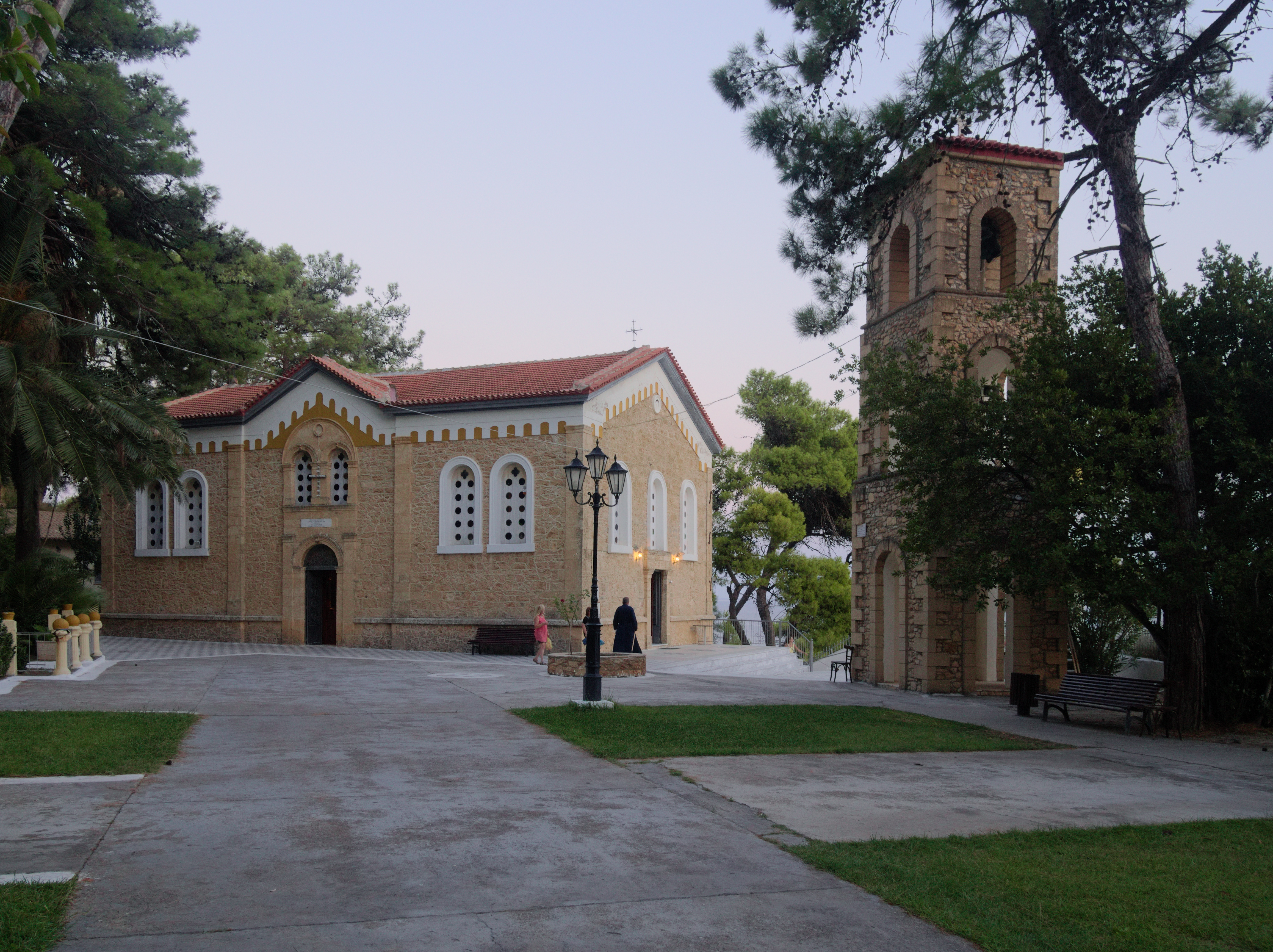 View of Panagia Eleistria, Koroni, at dusk.